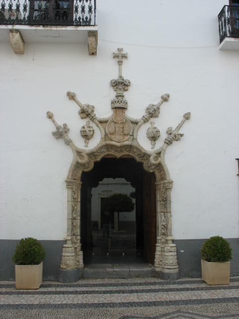 16th century manueline style portal at Olivenza town hall (Badajoz, Spain).